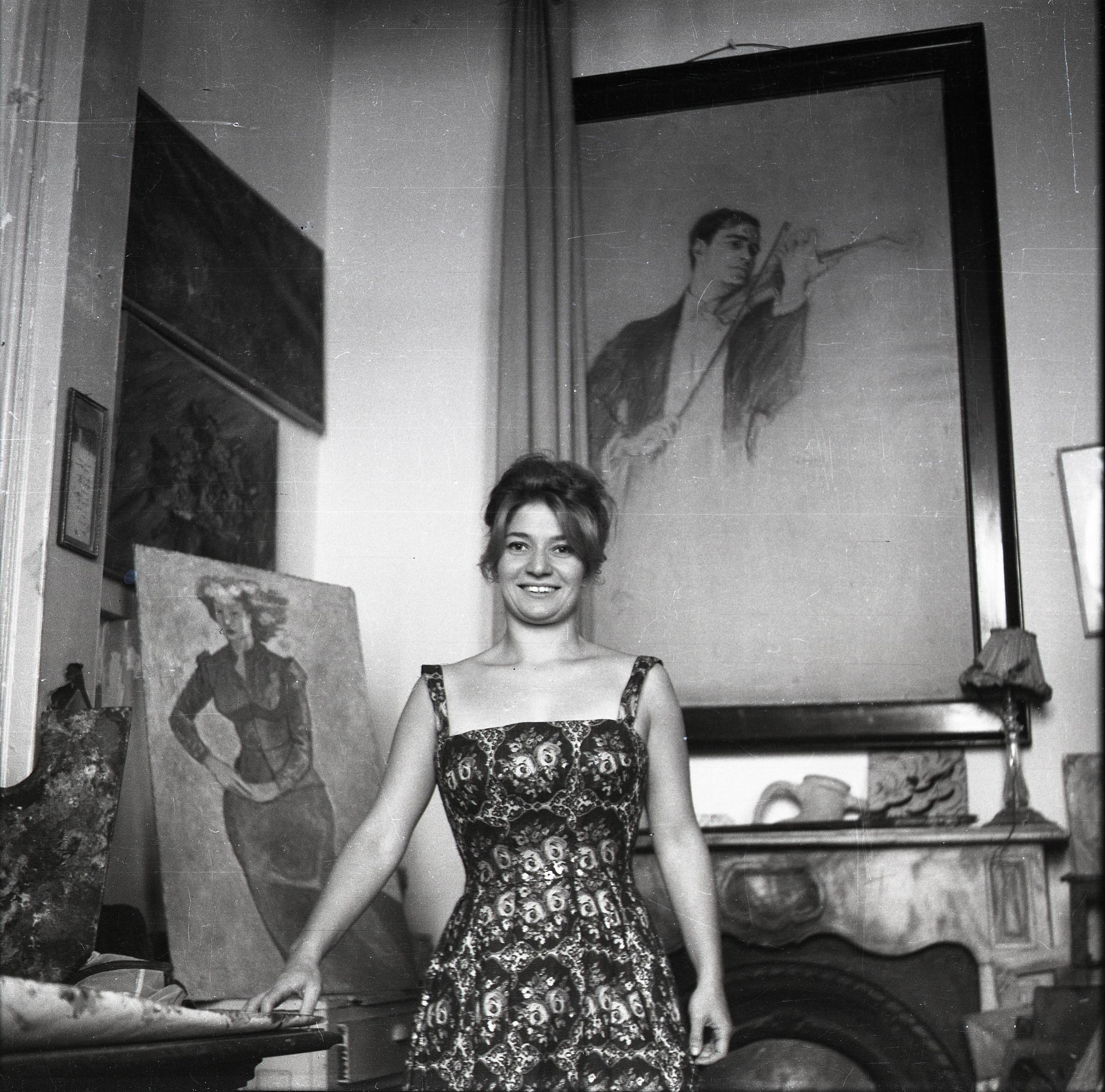 Turkish violinist Ayla Erduran at Aliye Berger's workshop in Narmanlı Han SALT Research, Eliza Day Archive